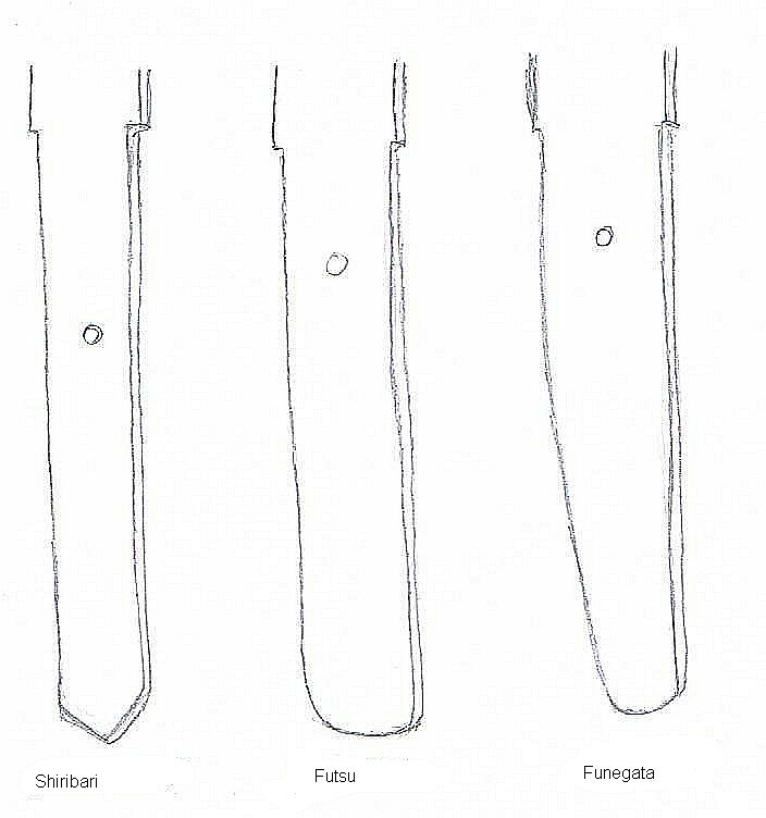 Styles of the japanese sword-tang (Nakago)2